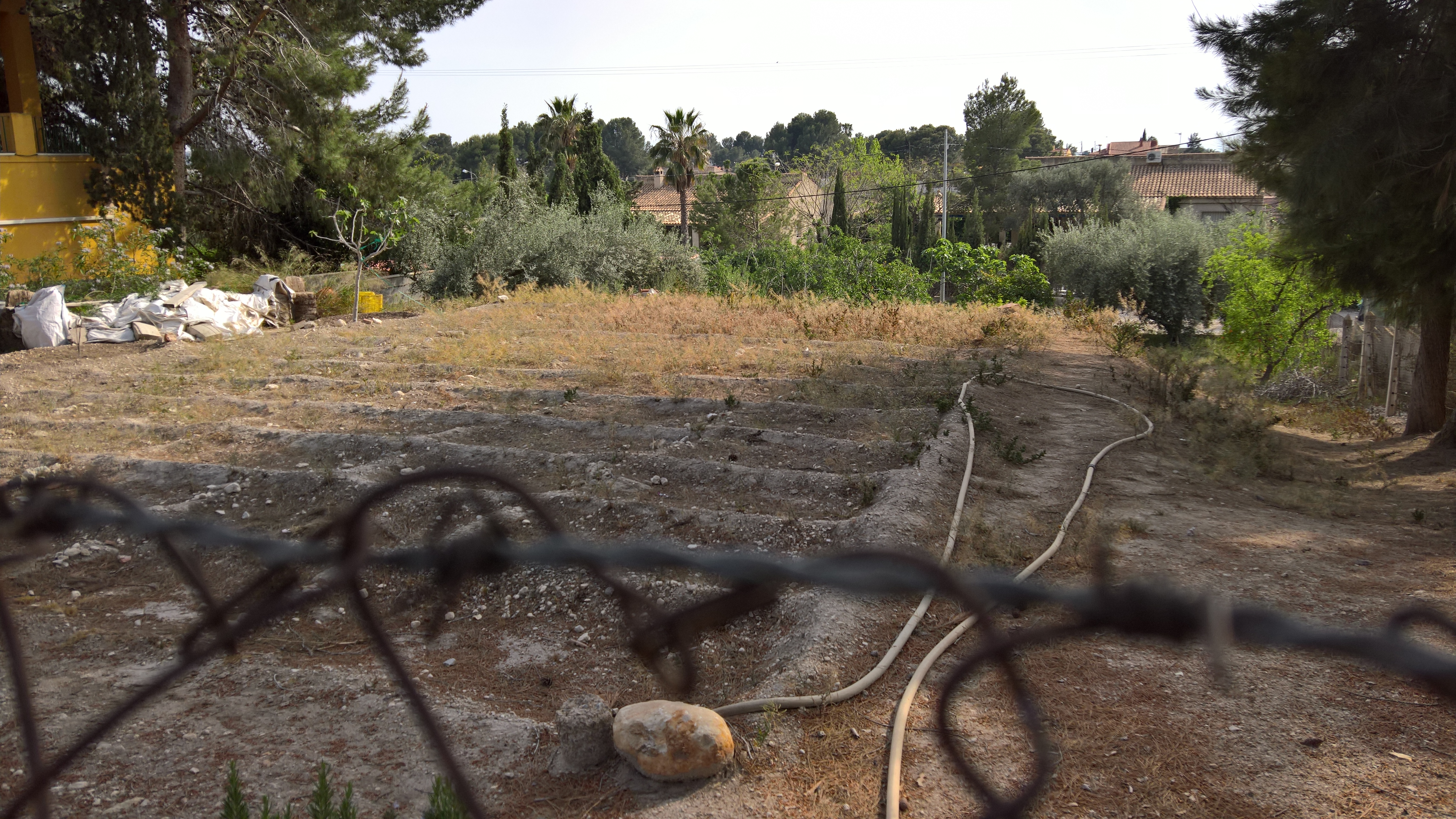 Paisaje de Los Valientes, pedania de Molina de Segura